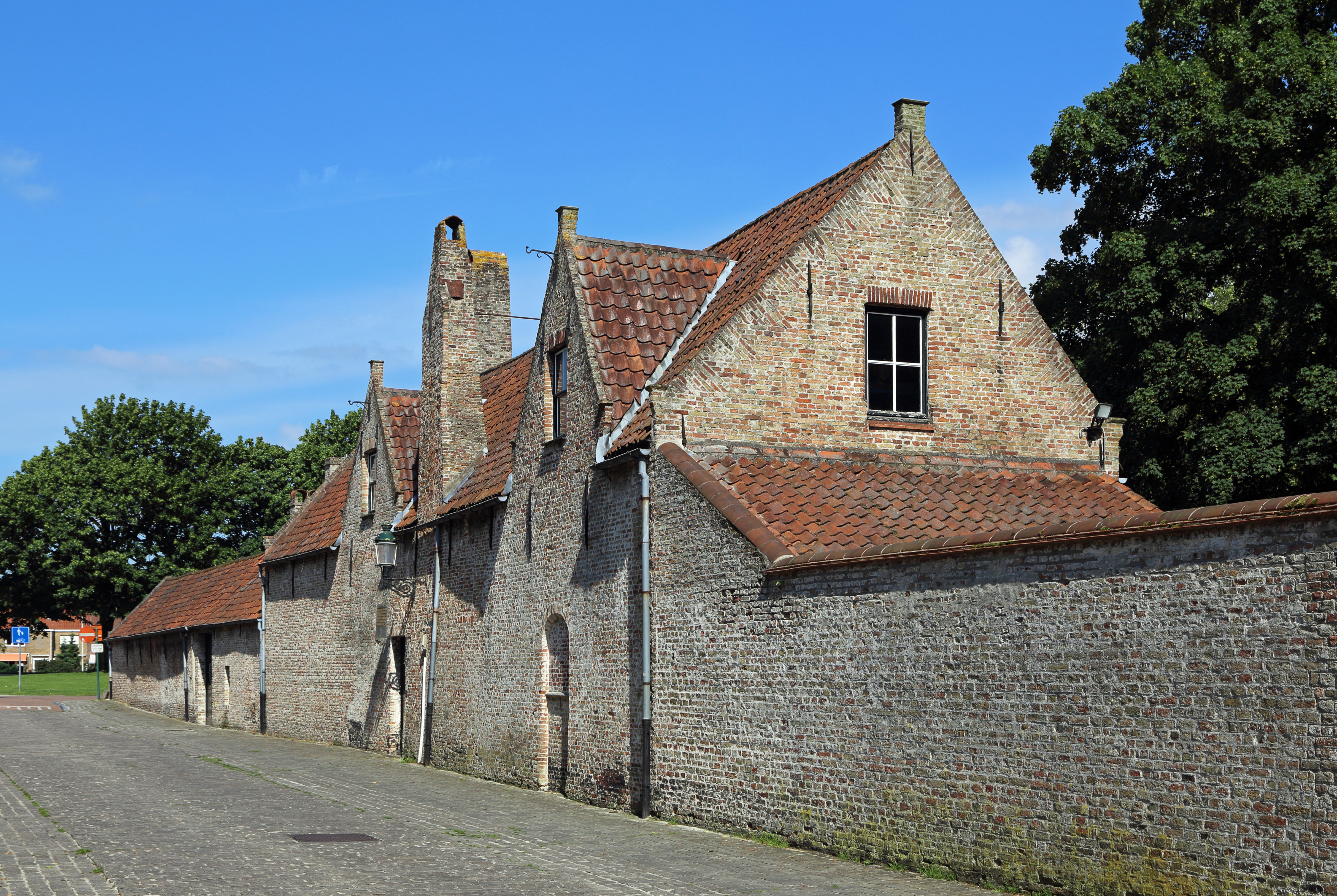 Bruges (Belgium), Rolweg 64: birthplace of the Flemish poet Guido Gezelle, now museum